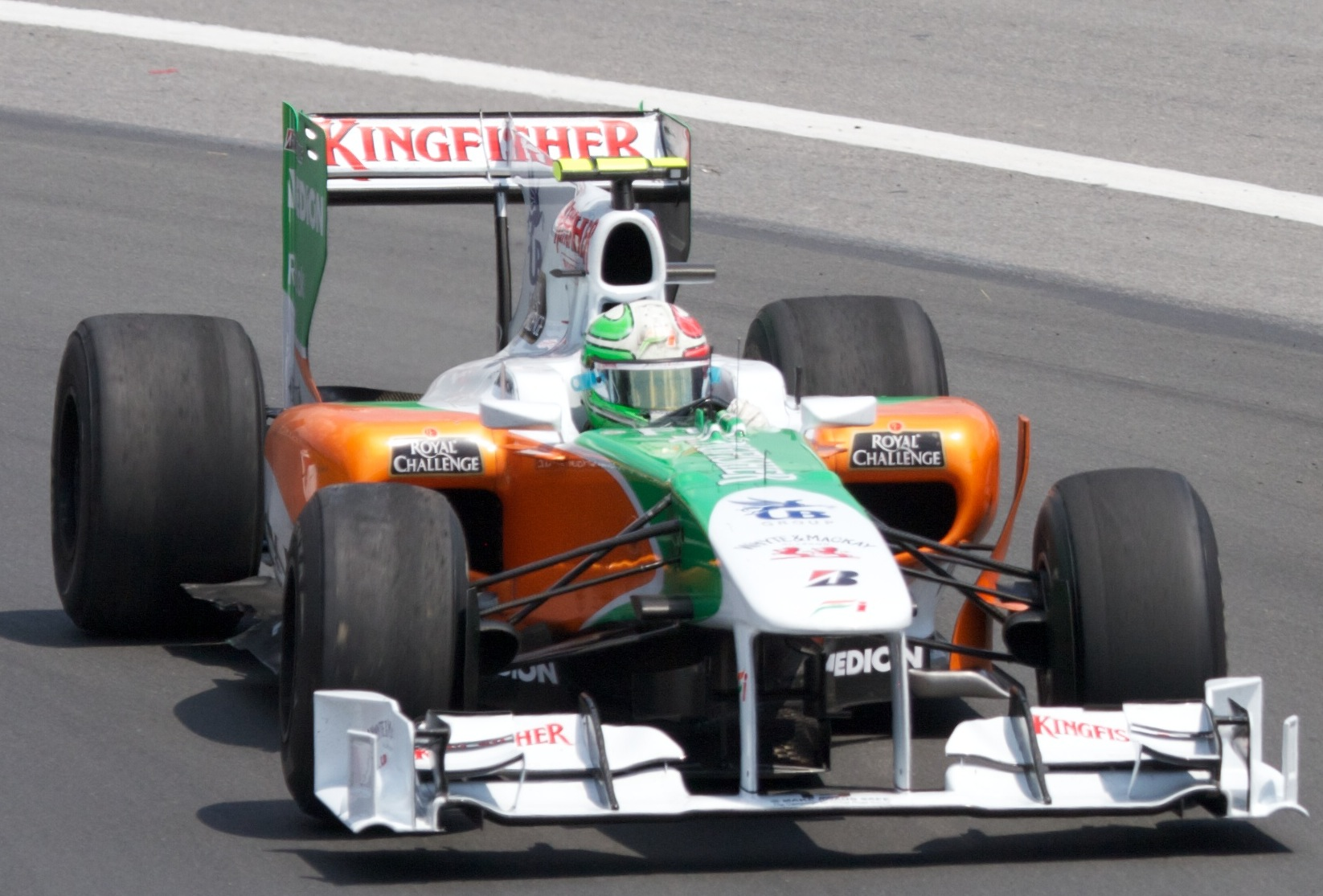 Massa with some power oversteer next to Liuzzi